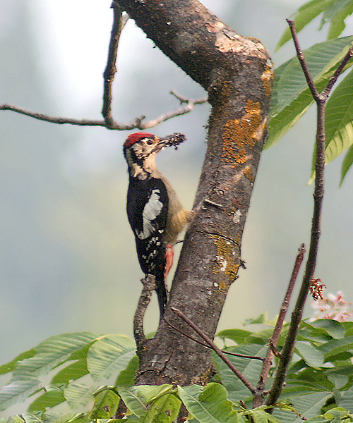 Himalayan Woodpecker Dendrocopos himalayensis in Kullu District of Himachal Pradesh, India.